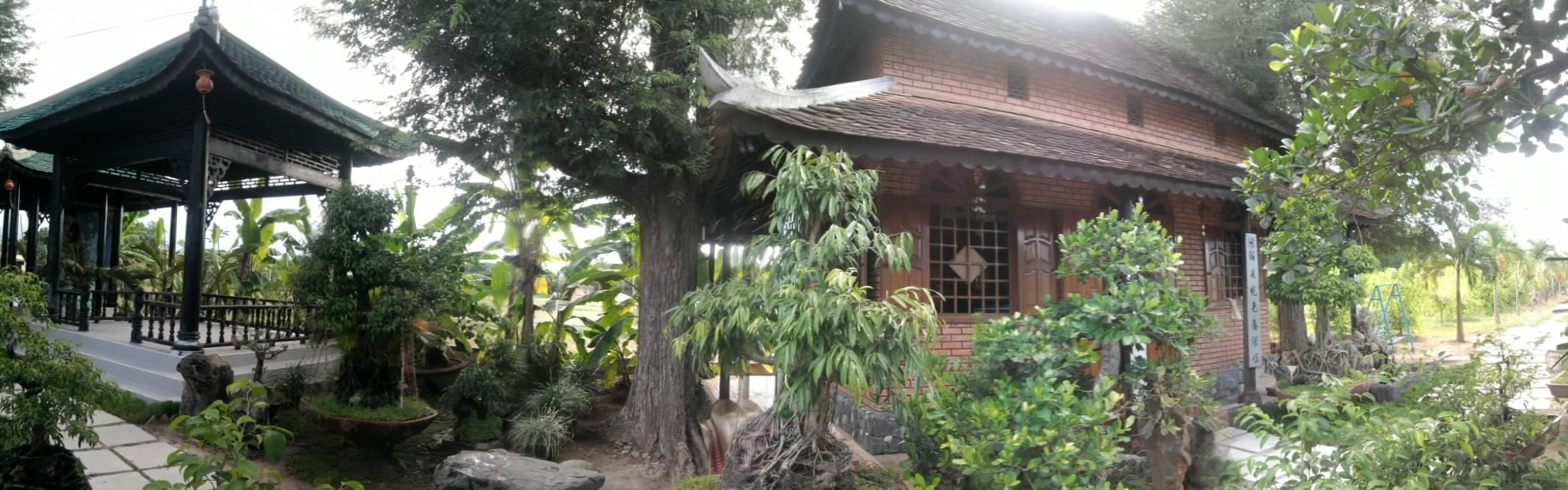 hneryreyce